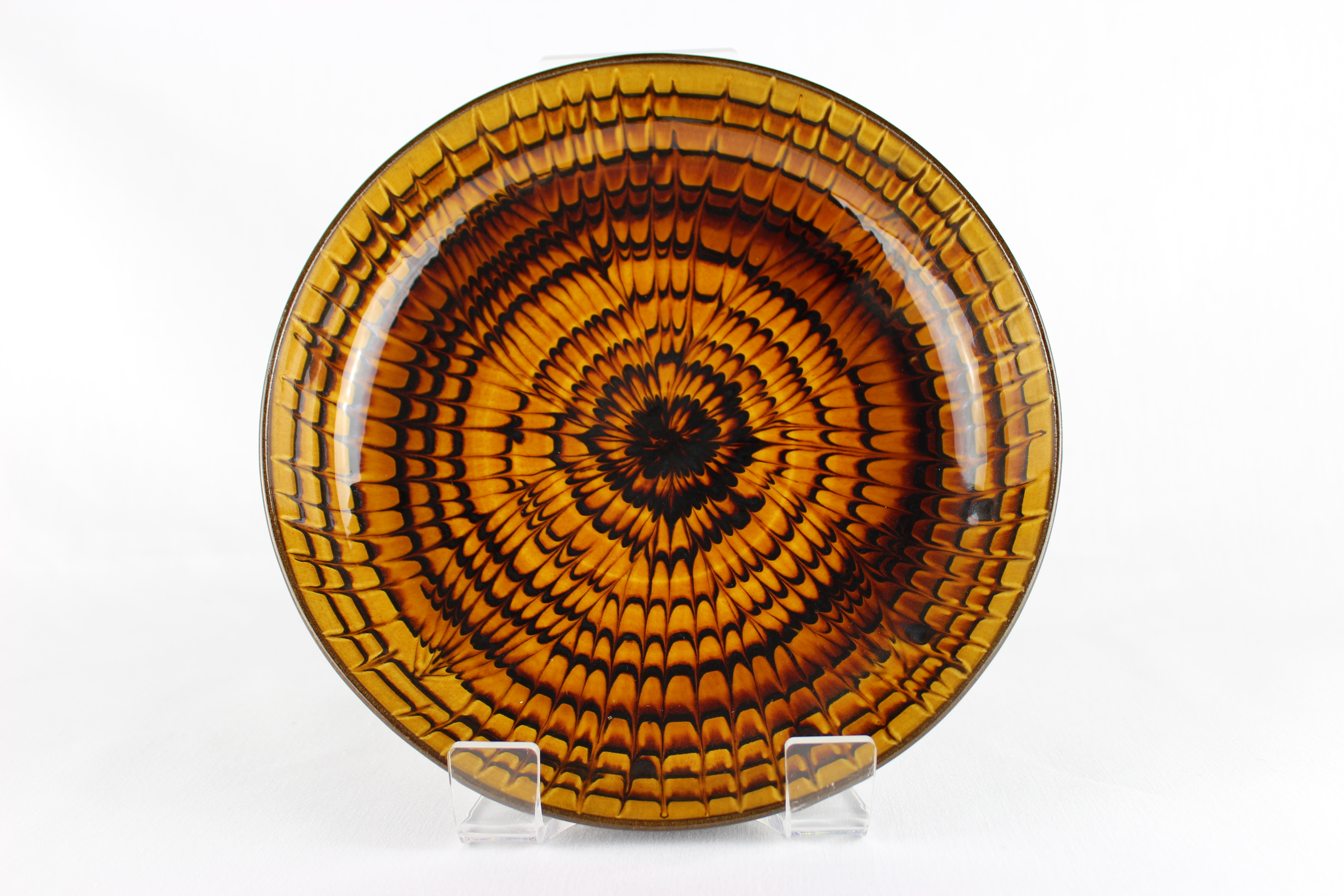 Slipware dish with feathered brown and yellow decoration. From the W.A. Ismay Studio Ceramics Collection at York Art Gallery